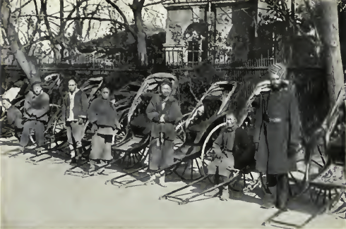 Rickshaws in China